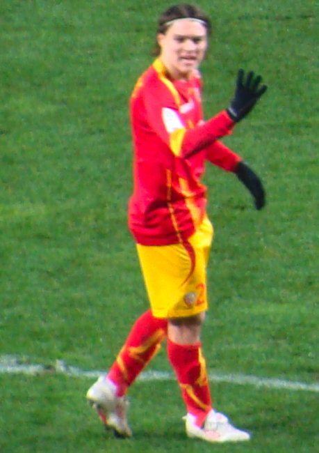 Kovacevic Player